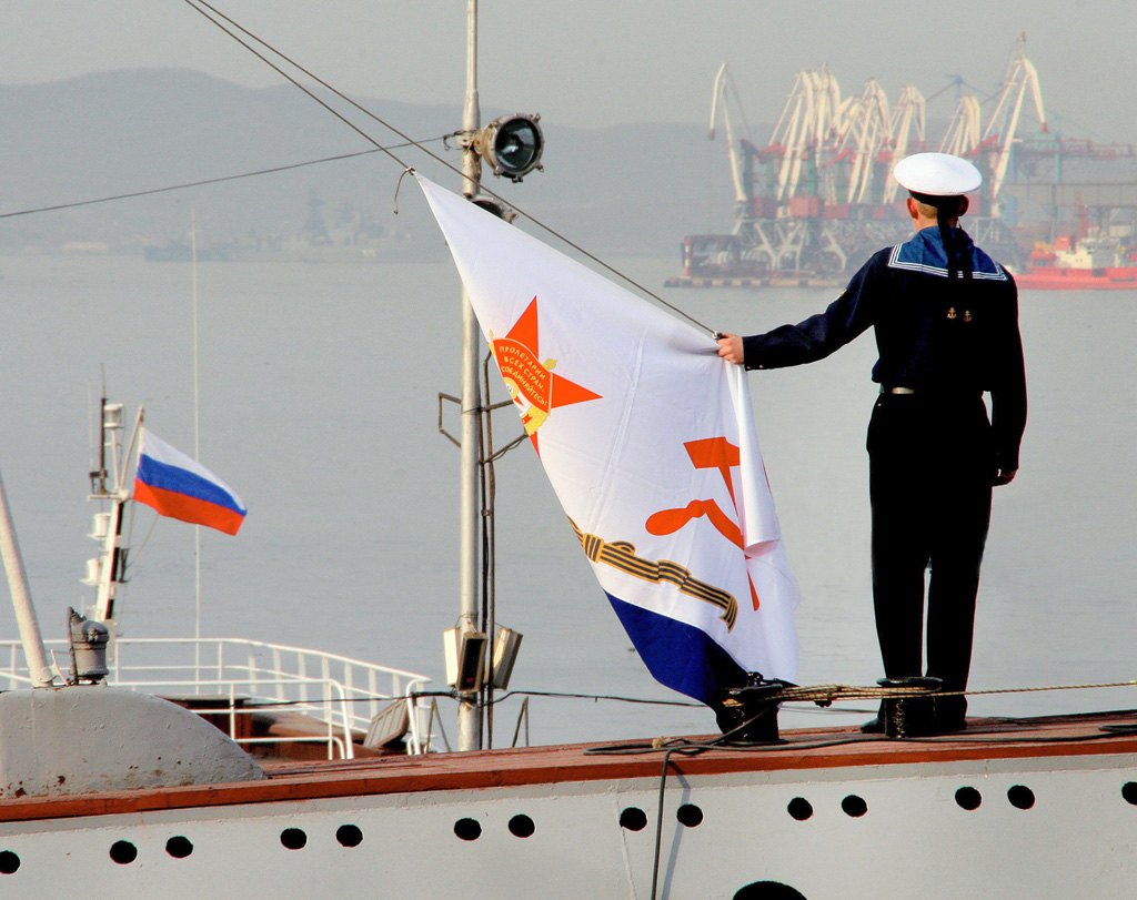 “V-E Day celebrations in Vladivostok”. Hoisting the flag of the memorial S-56 hero submarine on the 62nd V-E anniversary in Vladivostok on the Russian Pacific coast.